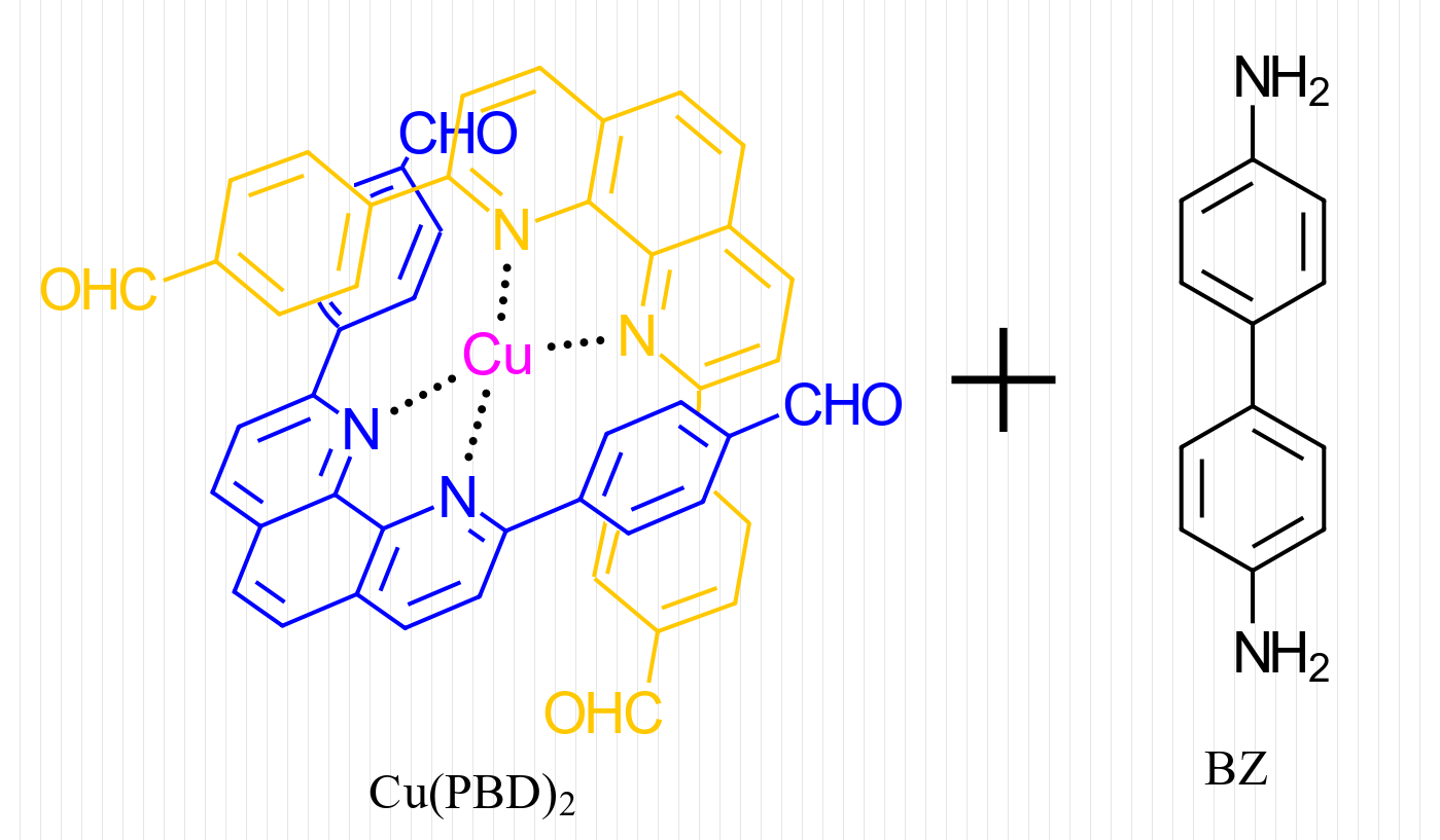 Molecules used in the synthesis of COF-505